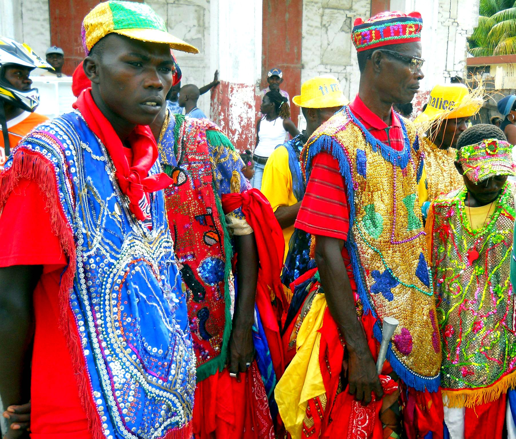 Majò Jon